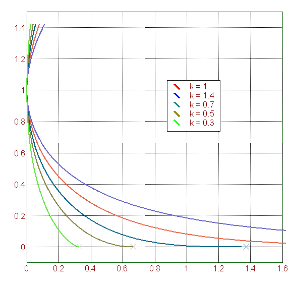 Curve of pursuit, different parameters, coloured